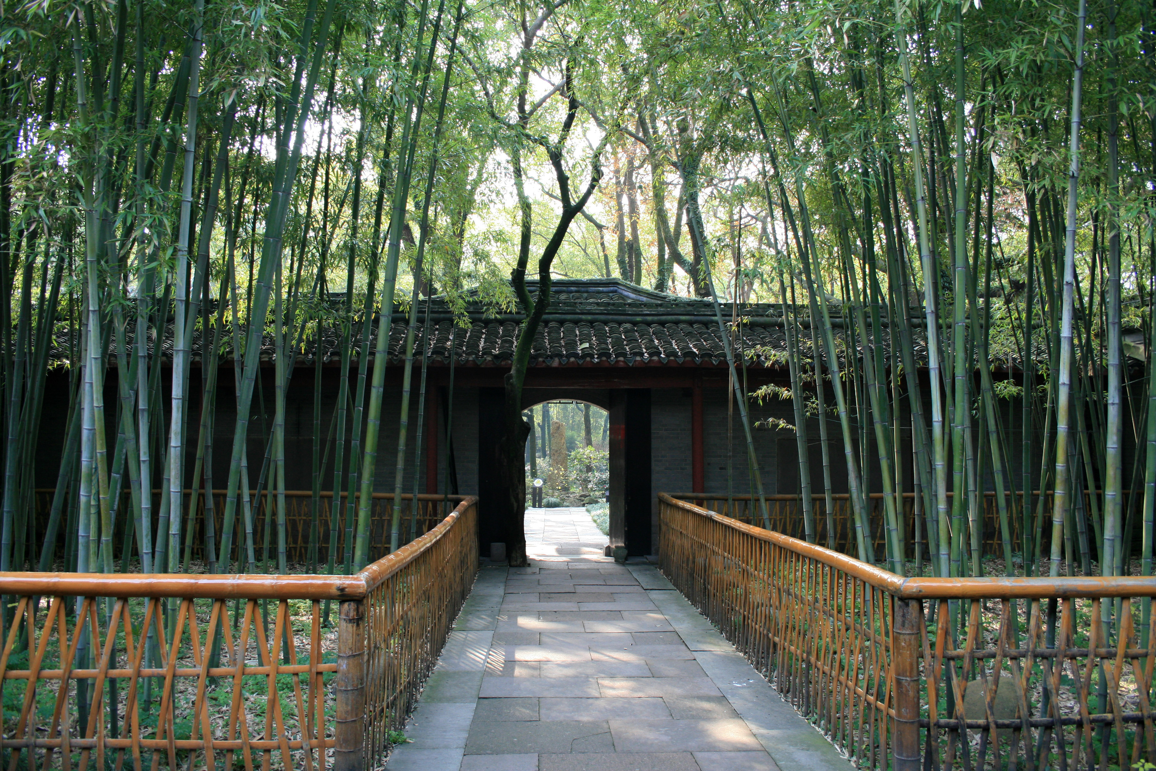 in the garden